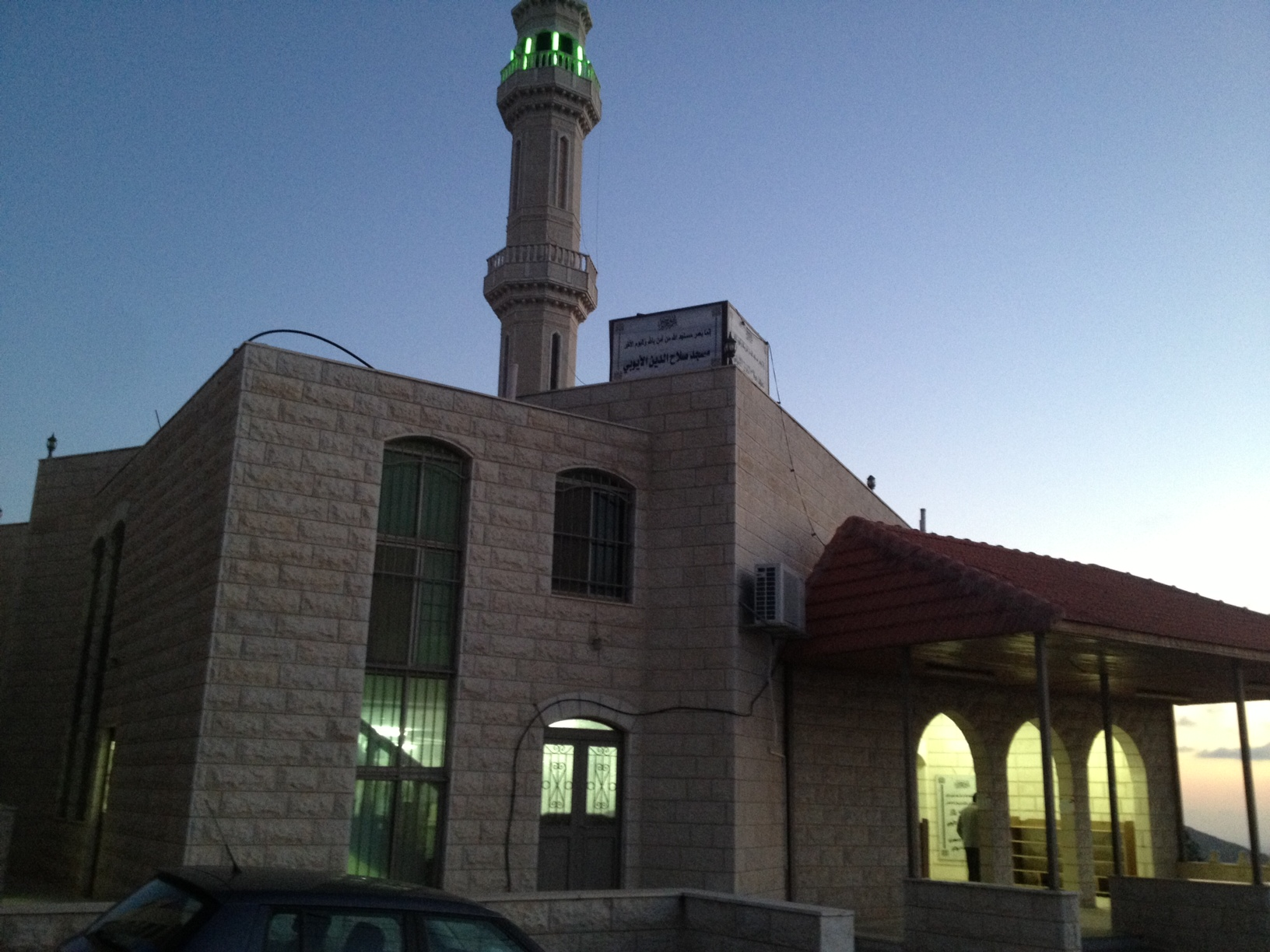 Salah Dein Mosque is located in Beitunia